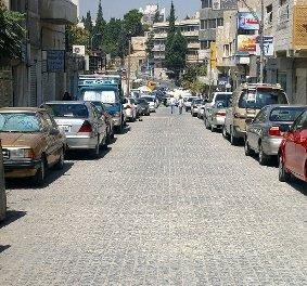 The 1st Circle is the first of a series of eight large traffic circles interspersed east-to-west on Zahran Street in Amman, Jordan